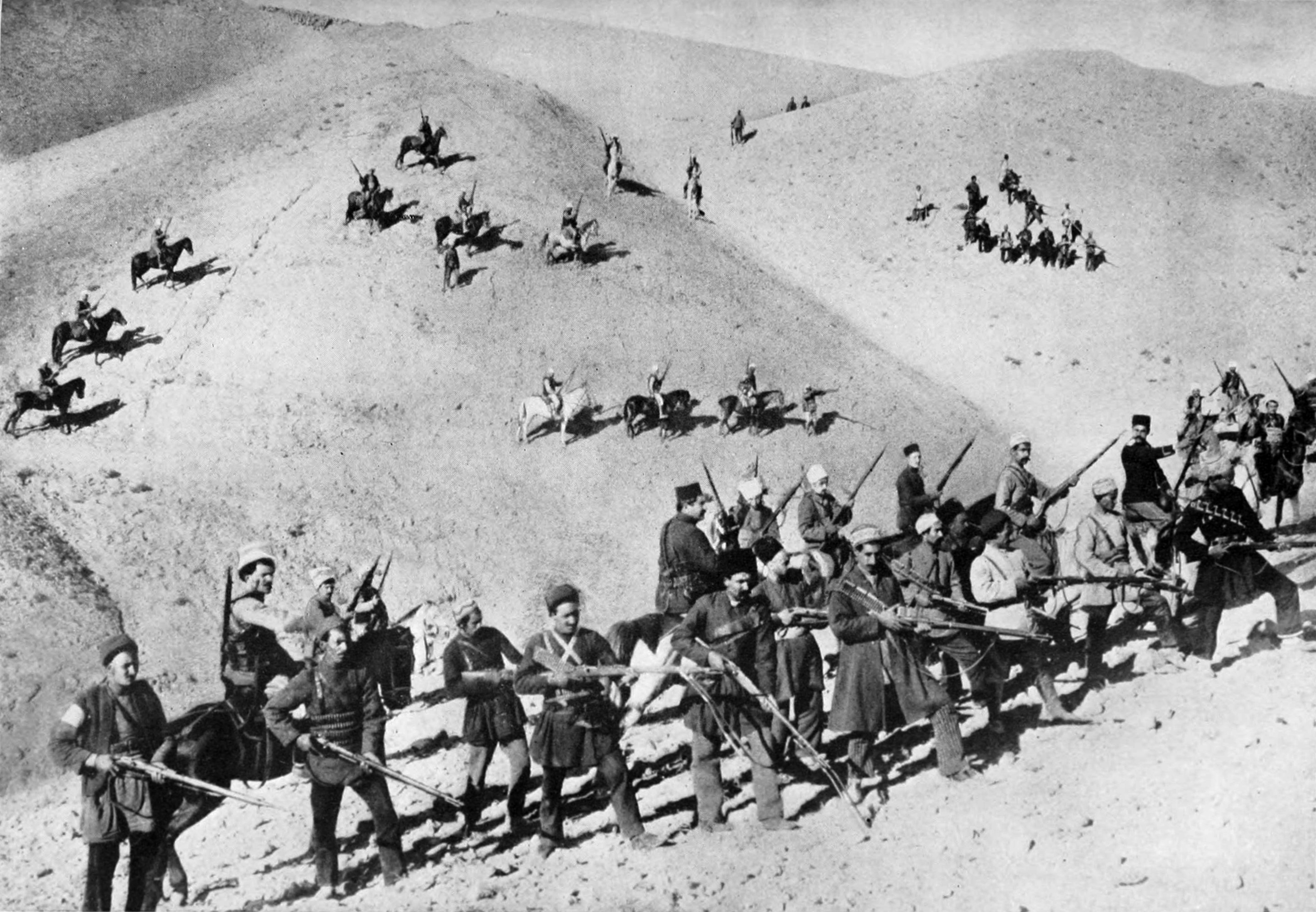 Title: The story of the greatest nations; a comprehensive history, extending from the earliest times to the present, founded on the most modern authorities, and including chronological summaries and pronouncing vocabularies for each nation; and the world's famous events, told in a series of brief sketches forming a single continuous story of history and illumined by a complete series of notable illustrations from the great historic paintings of all lands Year: 1913 (1910s) Authors: Ellis, Edward Sylvester, 1840-1916 Horne, Charles F. (Charles Francis), 1870-1942 Subjects: World history Publisher: New York : Niglutsch Text Appearing Before Image: 1-54 Text Appearing After Image: Egypt—The Gift of the Nile 107 journeying across dreary wildernesses and amid barbaric tribes, to study withtheir shrewdly watchful eyes a people almost their equals. For in this distantvalley they encountered a civilization unlike yet nearly as advanced as thatwhich they themselves had built up in Babylonia. In the story we have so far followed, we have seen that the chief move-ments of mans growth, the tale of his slowly rising culture and political power,continued to centre in the \alley of the Euphrates from the very earliest be-ginnings down to the time of the decay of the first Persian empire. Butmeanwhile, strangely enough, there was growing up in this other similar rivervalley of the Nile another w^hoUy independent and oddly contrasting civili-zation. Egypt, lying far off in Africa, apart from the main highroad ofmigrating nations, and protected from invasion by the surrounding deserts, wasnot, like Babylonia, a great melting pot wherein many races mixed, unitingmany languag